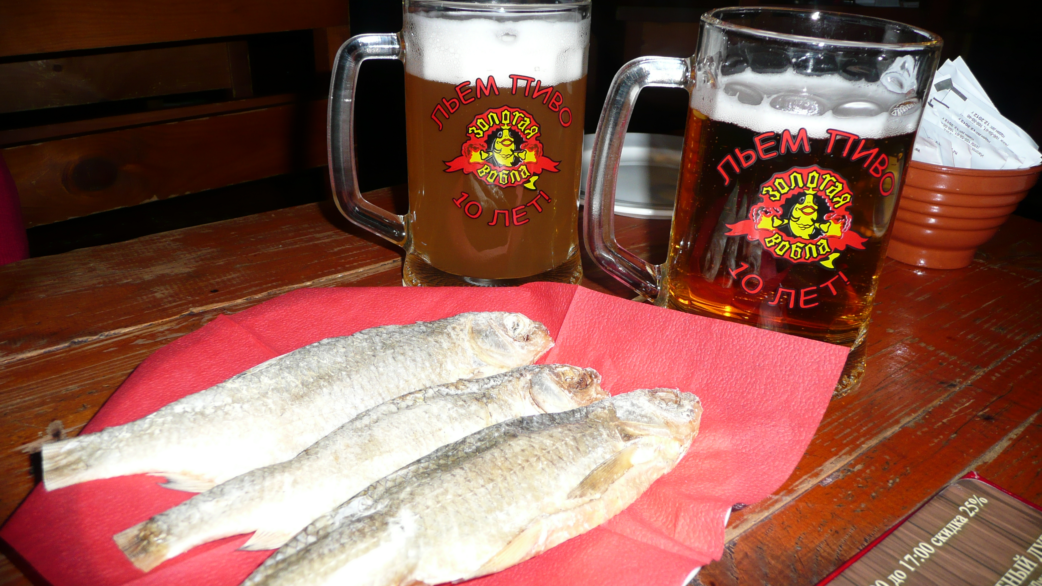 Vobla